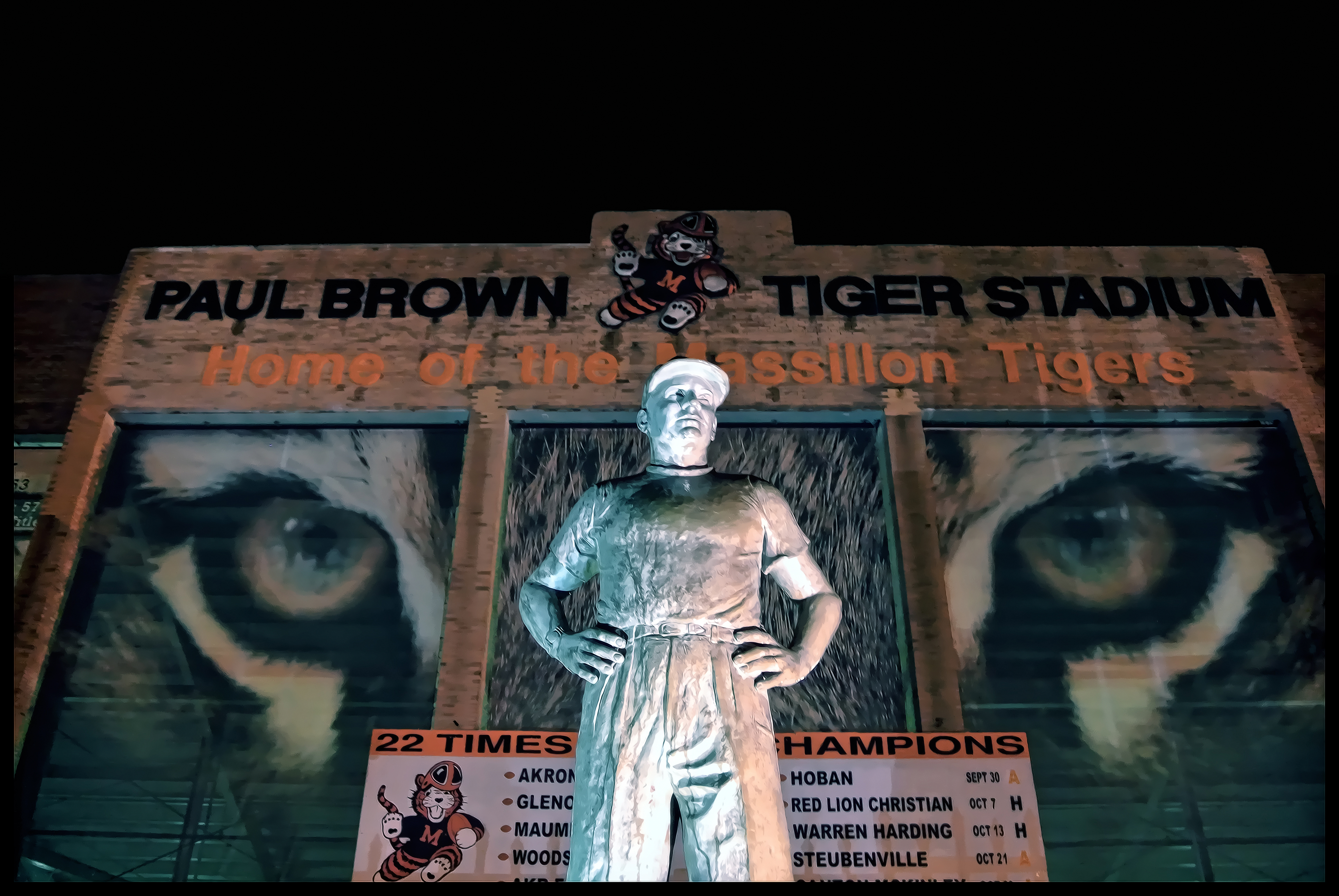 Famous resident football player, coach and founder/owner of the Cleveland Brown's & Cincinnati Bengal's Brown, in memoralized in statue form in front of Massillon, Ohio's "Paul Brawn Tiger Stadium"